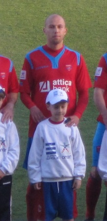 Cocalić before the match against PAOK